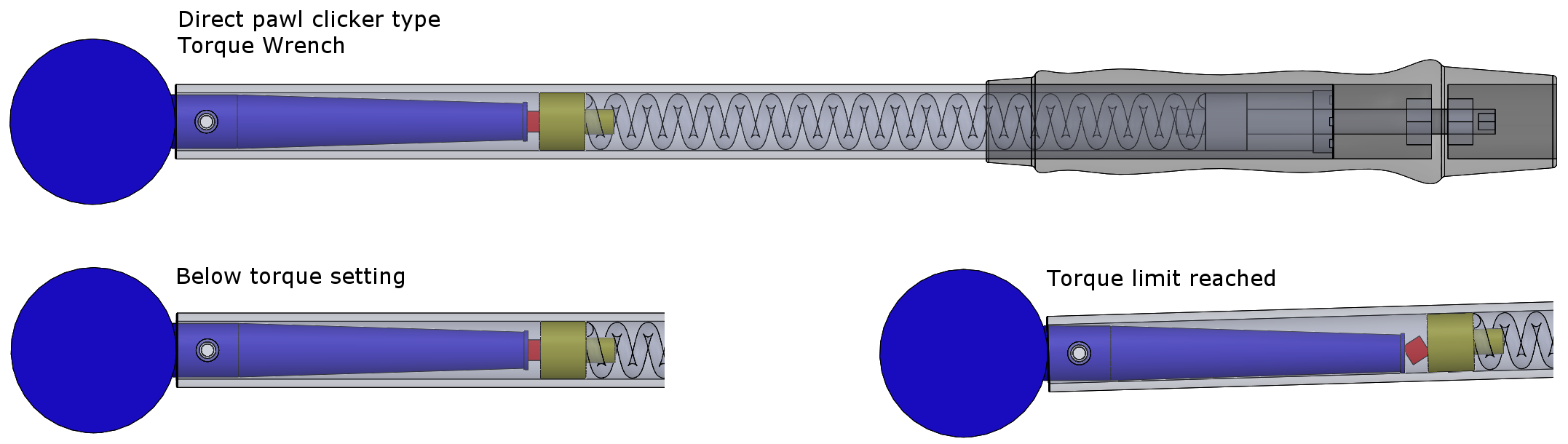 A basic view of the workings of a clicker type torque wrench. This particular type is probably the simplest, it uses a cubic pawl as the detente directly in contact with the drive head and spring cam.